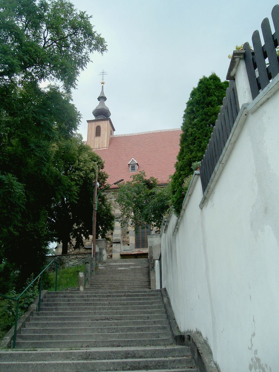 Hannersdorf (Sámfalva), church